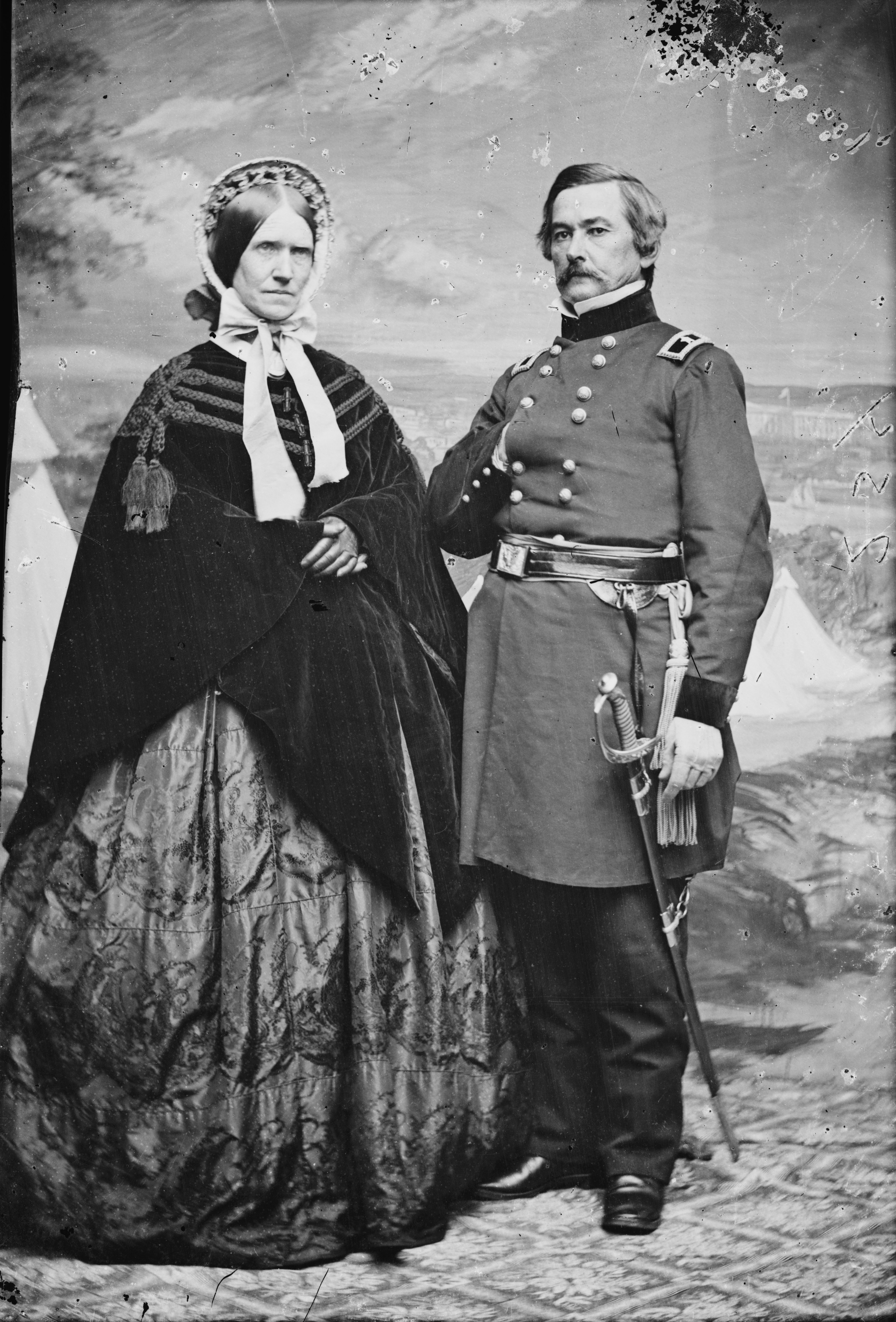 Gen. Willis A. Gorman & wife